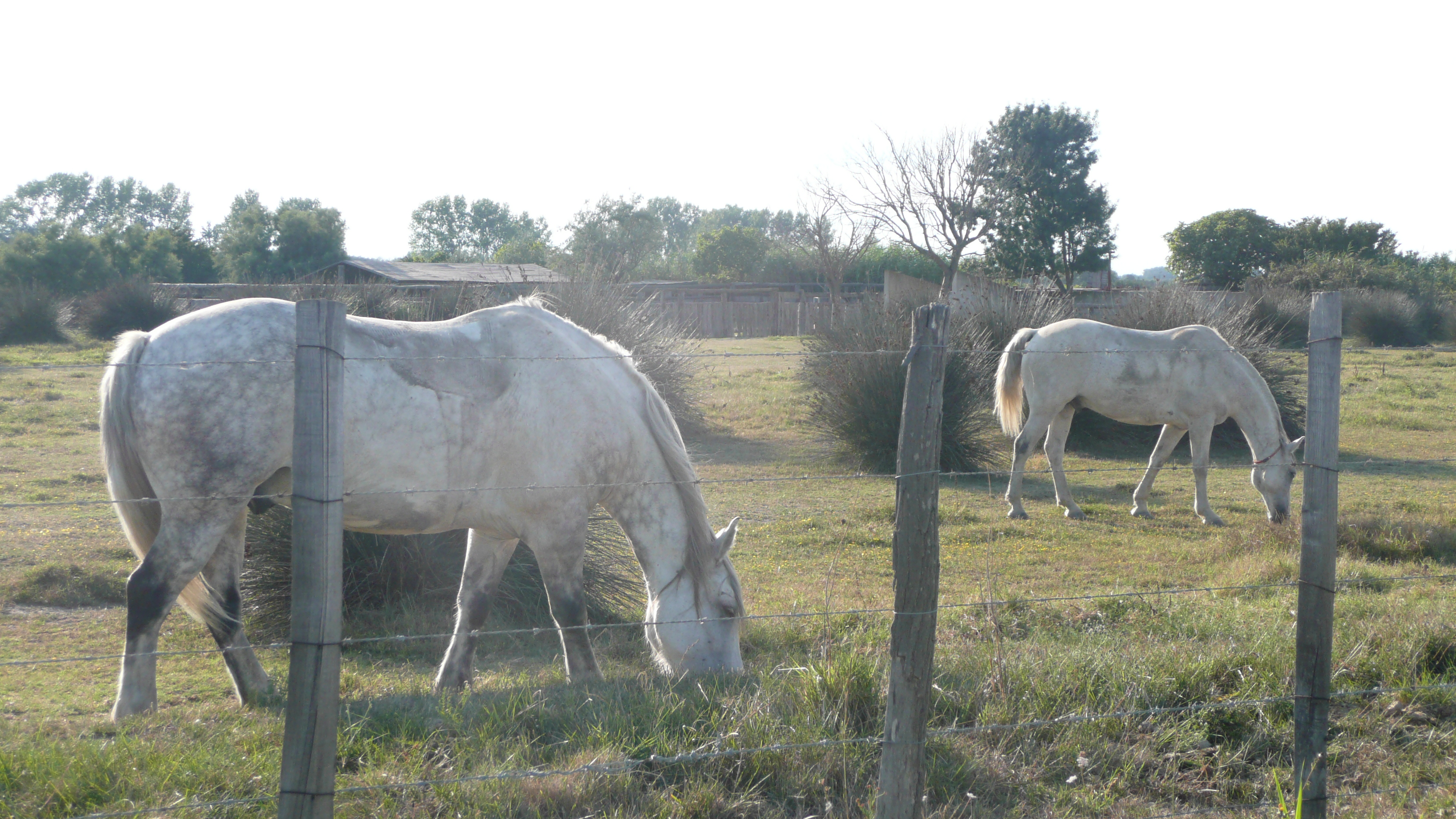 White horses in the Camargue